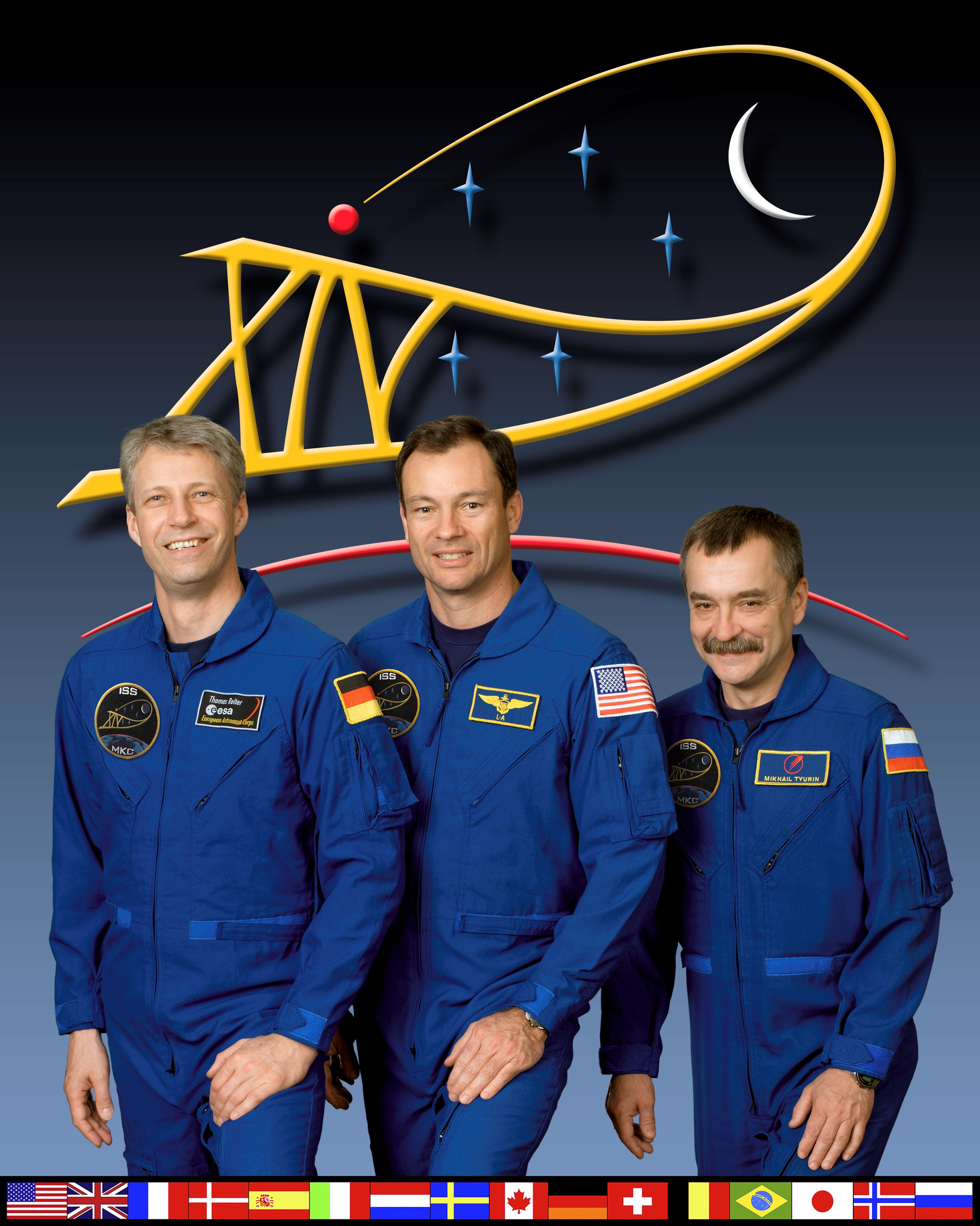 Astronaut Michael E. Lopez-Alegria (center), Expedition 14 commander and NASA space station science officer; cosmonaut Mikhail Tyurin (right), flight engineer representing Russia's Federal Space Agency; and European Space Agency (ESA) astronaut Thomas Reiter, flight engineer, take a break from training at Johnson Space Center to pose for a crew portrait.